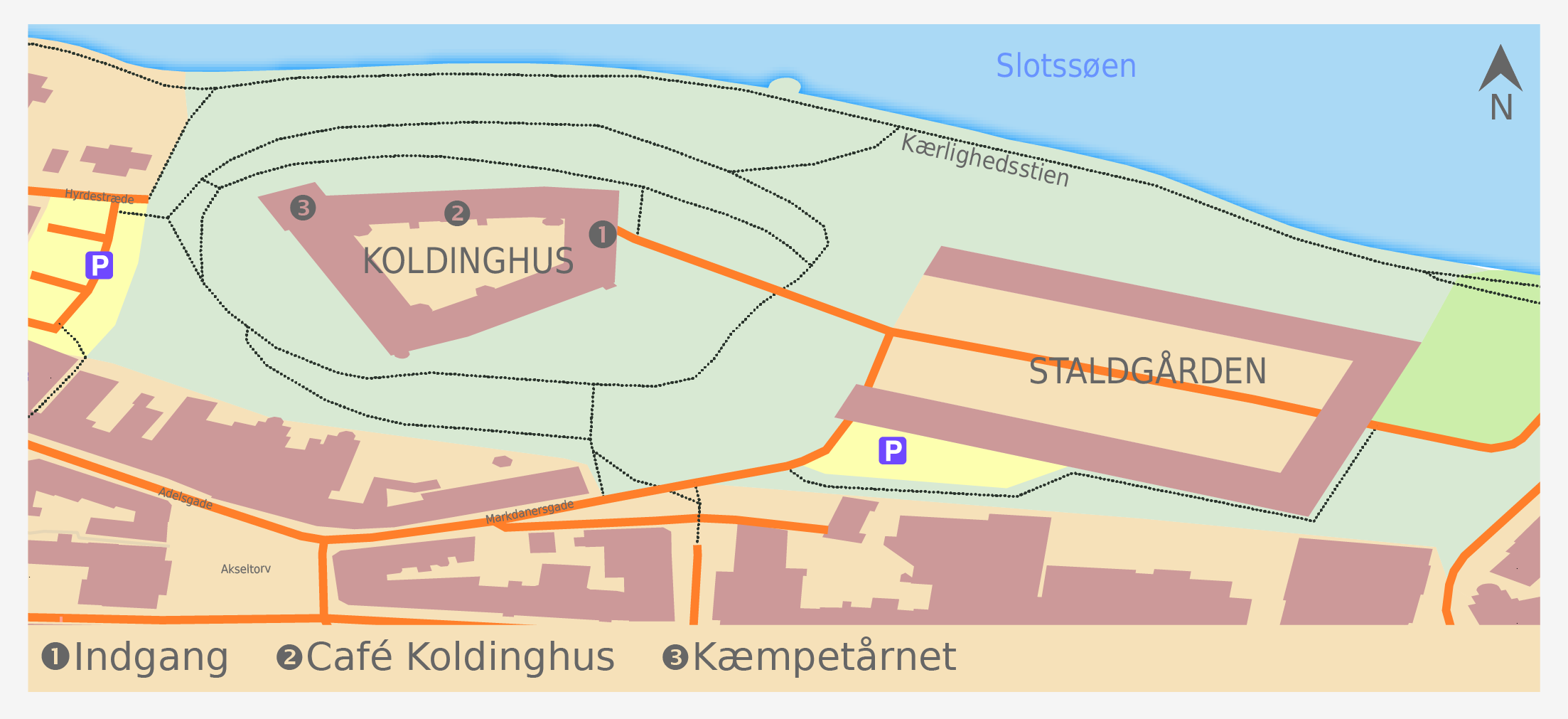 Map of Koldinghus. This map may be incomplete, and may contain errors. Don't rely solely on it for navigation.